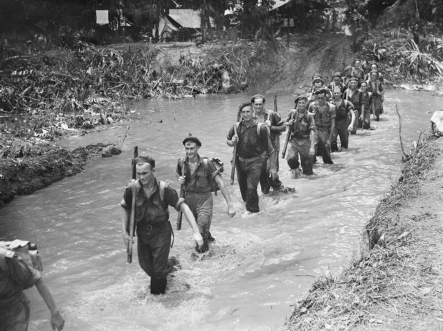 Australian soldiers from the 61st Battalion (Queensland Cameron Highlanders) advance along the Mosigetta River on Bougainville Island in March 1945 during the campaign against the Japanese.